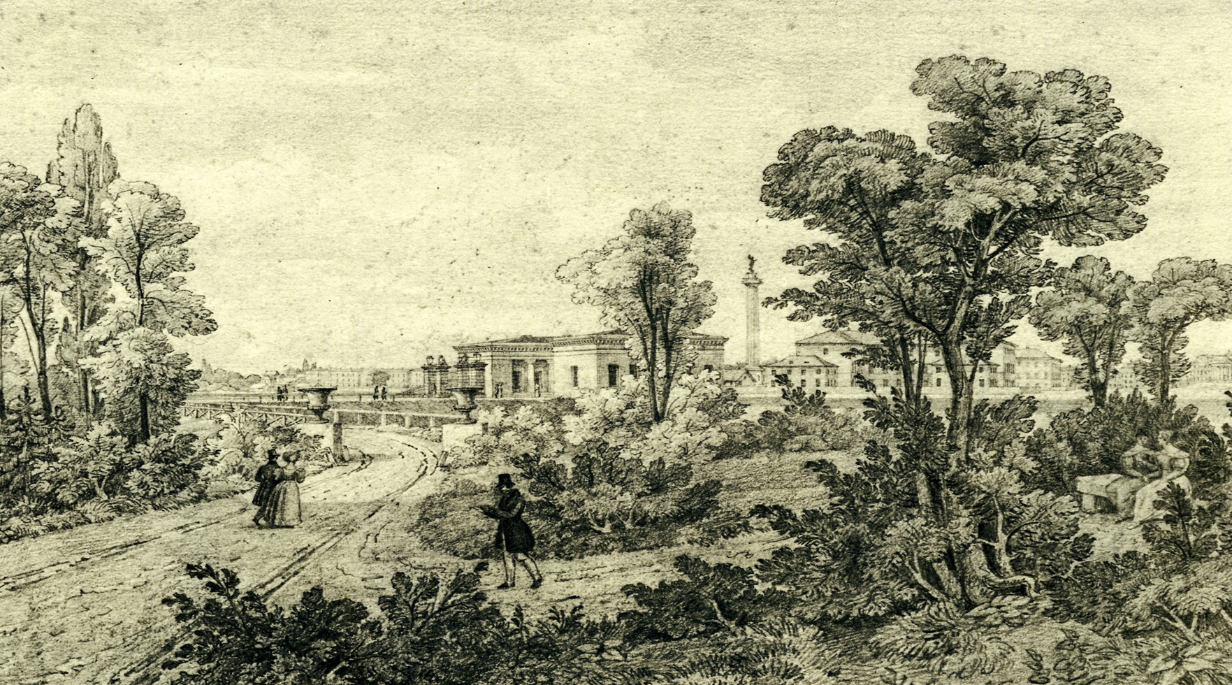 City gate 1835 in Hanover. Crayon drawing by Rudolf Wiegmann.